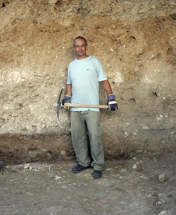 Professor Oeming on a historical site